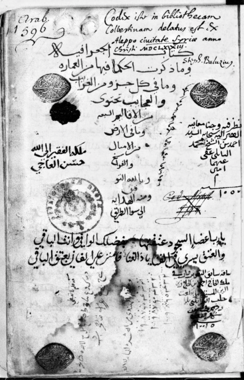 this image is a scanned colophon from MS Arabe 2220